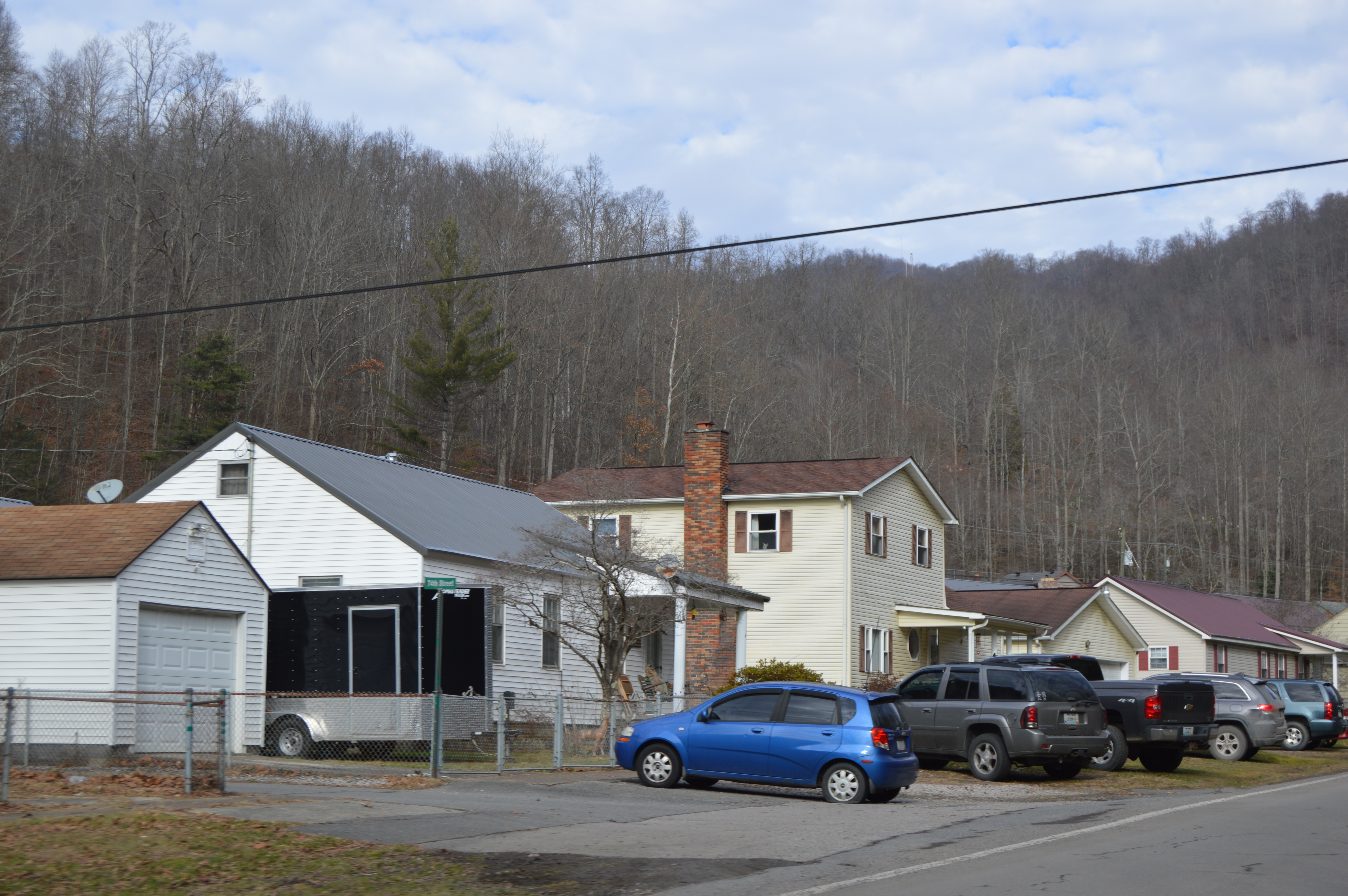 Houses on West Virginia Route 85 at Kopperston in Wyoming County, West Virginia, United States.